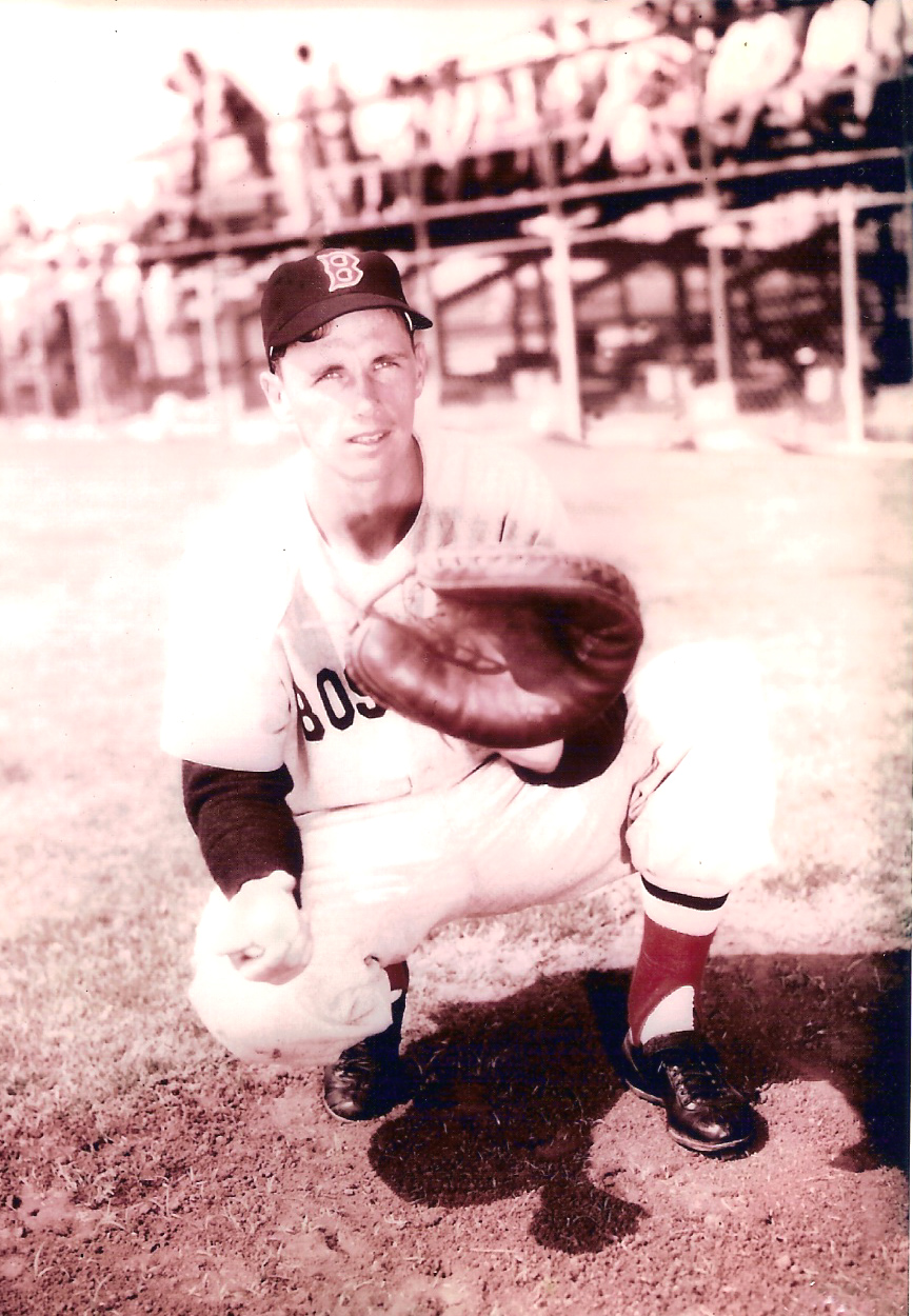 Samuel Charles White (July 7, 1928 - August 5, 1991) was a Major League Baseball catcher and right-handed batter who played with the Boston Red Sox (1951-59), Milwaukee Braves (1961) and Philadelphia Phillies (1962).